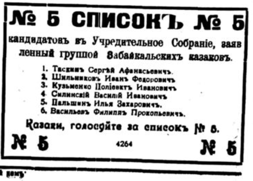 advert for list 5 in the 1917 Russian Constituent Assembly election, Transbaikal